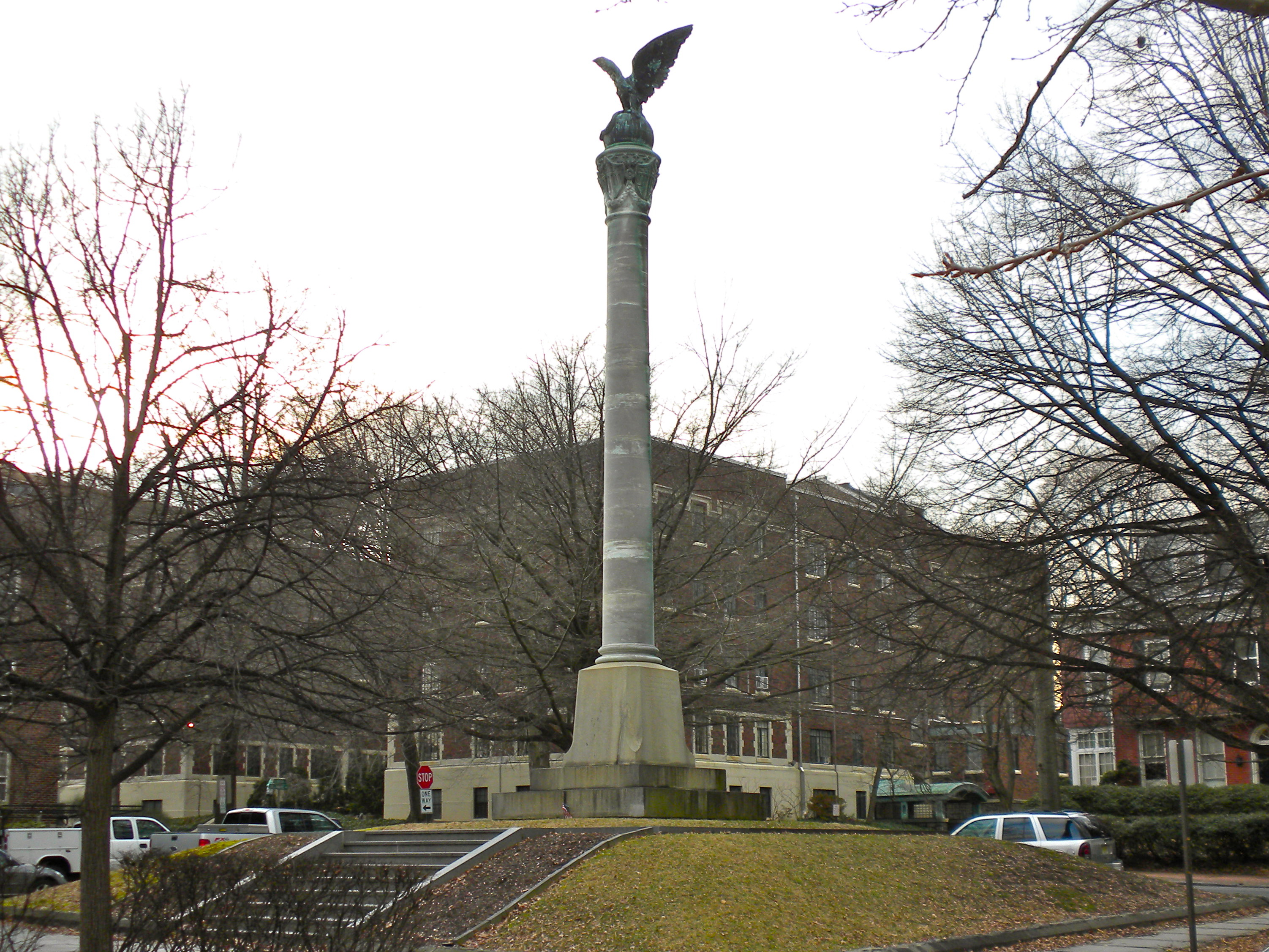 Soldiers and Sailors Monument in Wilmington, Delaware at approx 1300 Delaware Ave. In the Delaware Avenue Historic District on the NRHP since September 13, 1976, which runs along Delaware Ave. from N. Harrison to N. Broom Sts. (both sides) Commemorates Delaware Union veterans of the Civil War.